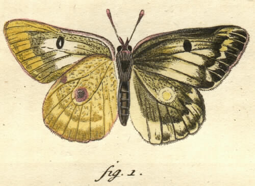 Colias phicomone